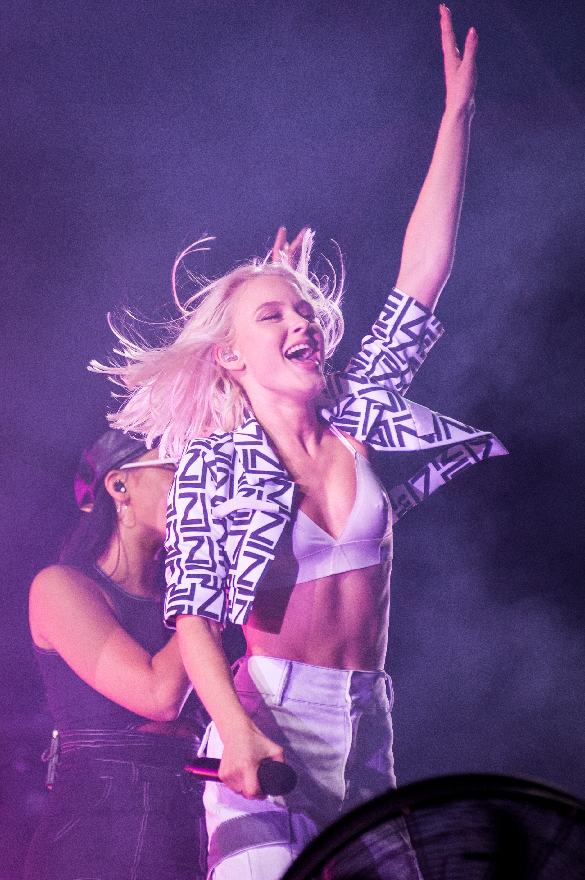 Swedish singer Zara Larsson performing at the 2018 Ilosaarirock festival in Joensuu, Finland.